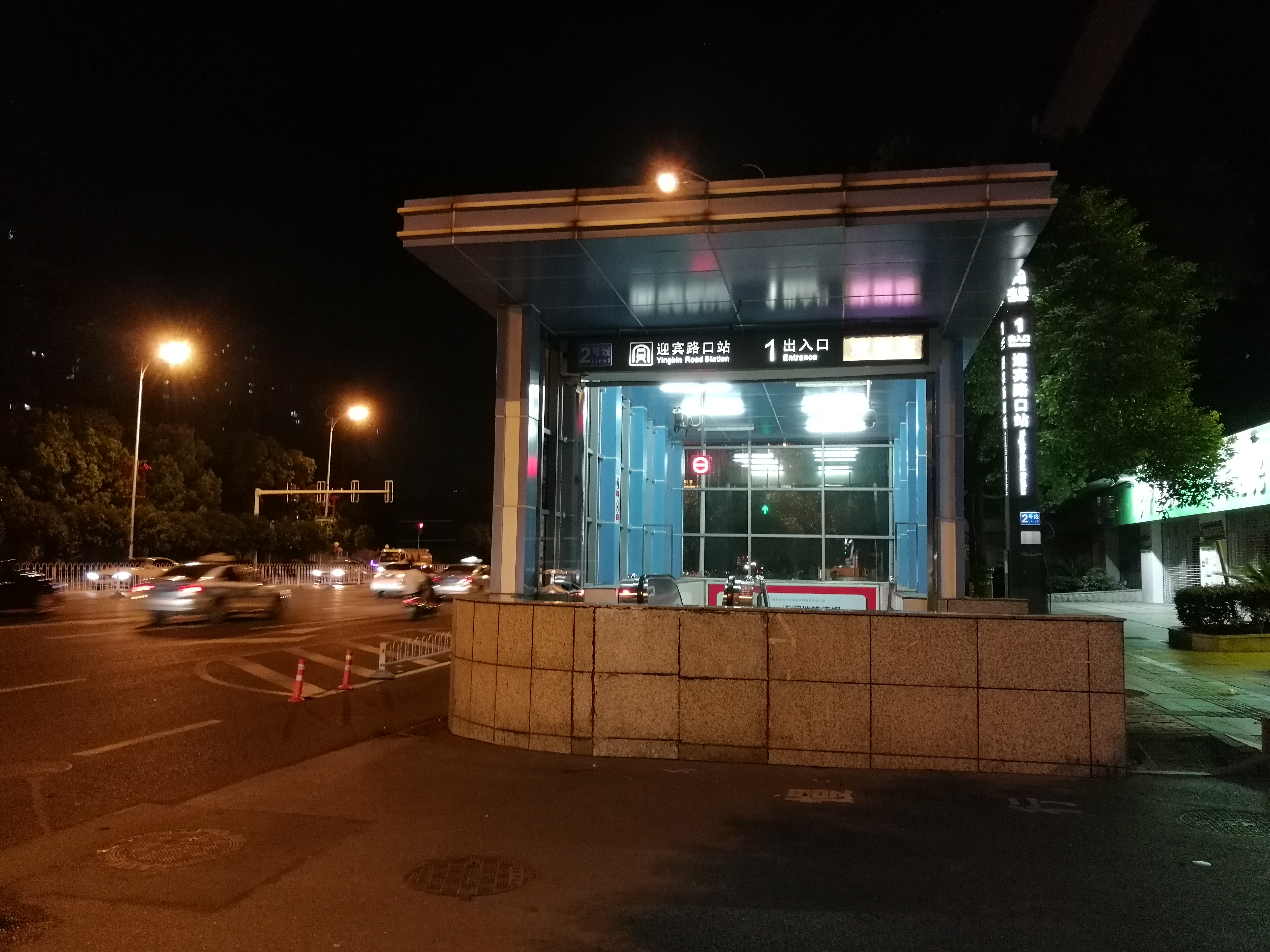 Yingbin Road Station (night)